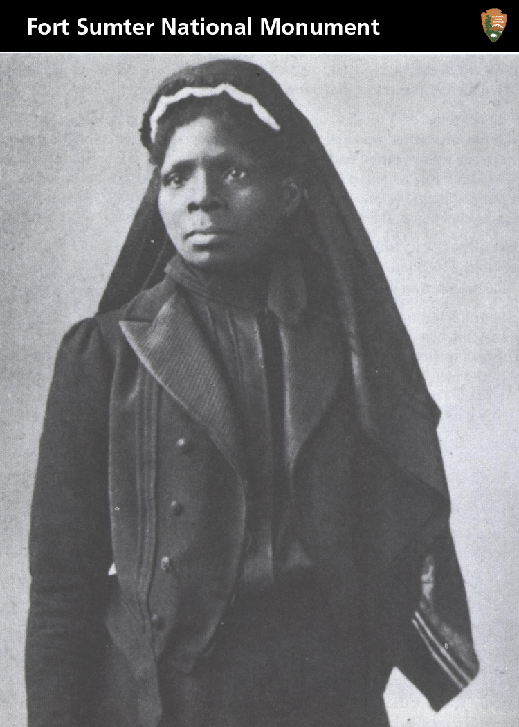 Born enslaved in Georgia and secretly educated by white friends, Susie KingTaylor attained freedom at 14 yearsold. During the war she escaped toUnion lines and served on MorrisIsland with the 1st South Carolina Volunteers (Union), nursing them back to health and teaching them to read. After the war she fought against the discrimination occurring uring Reconstruction.